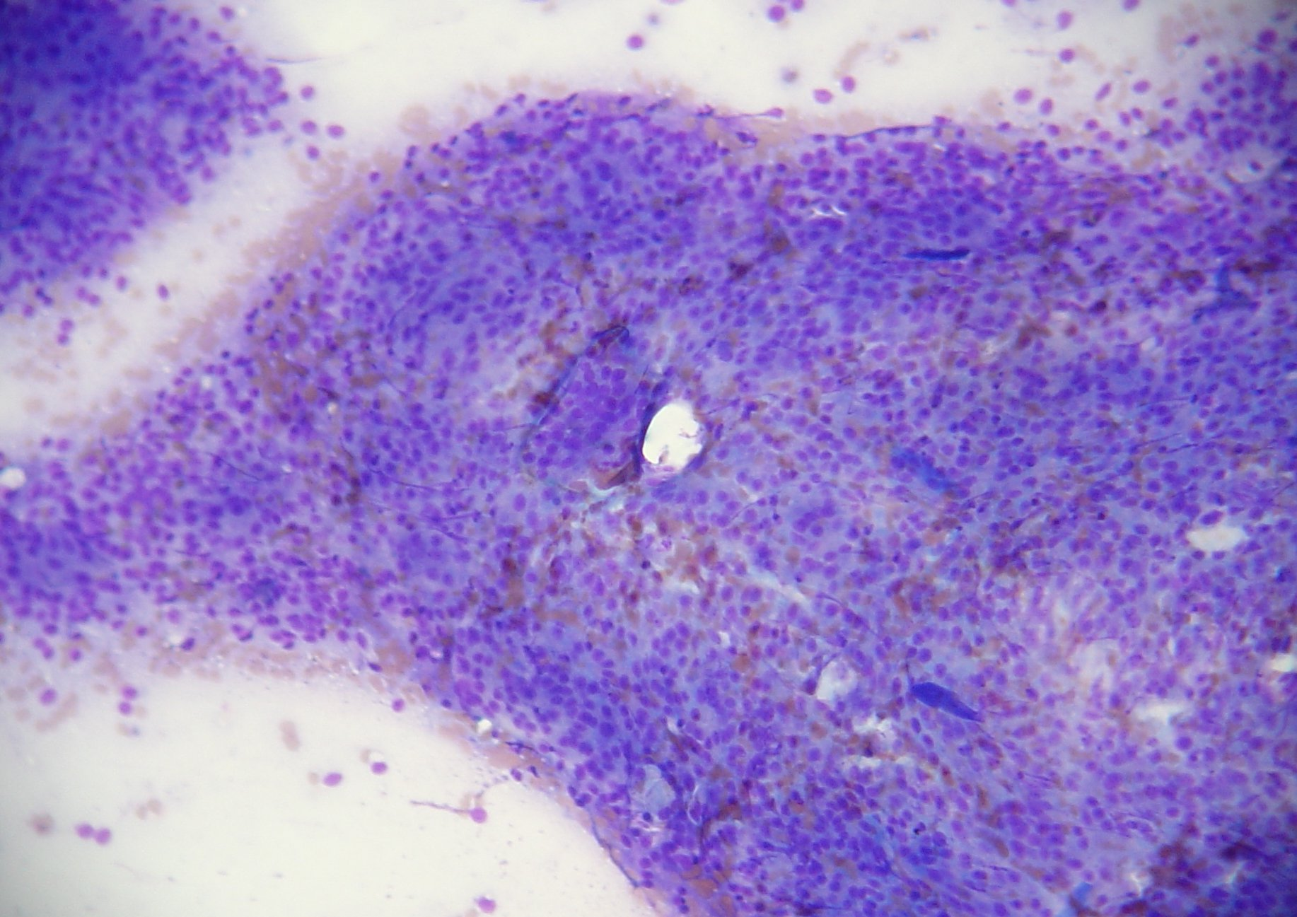 Cytology from a needle aspiration biopsy of an anal sac adenocarcinoma of a dog. Slide was stained with a modified Wright's stain.